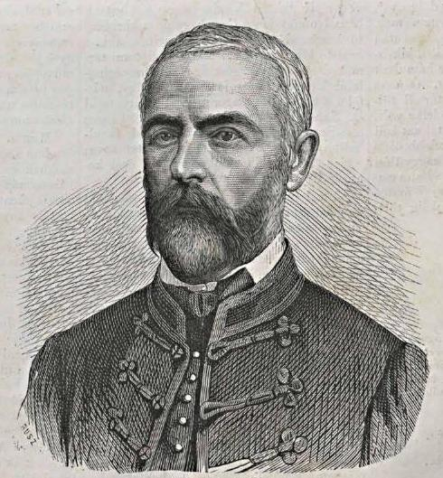 Portrait of the historian Iván Nagy